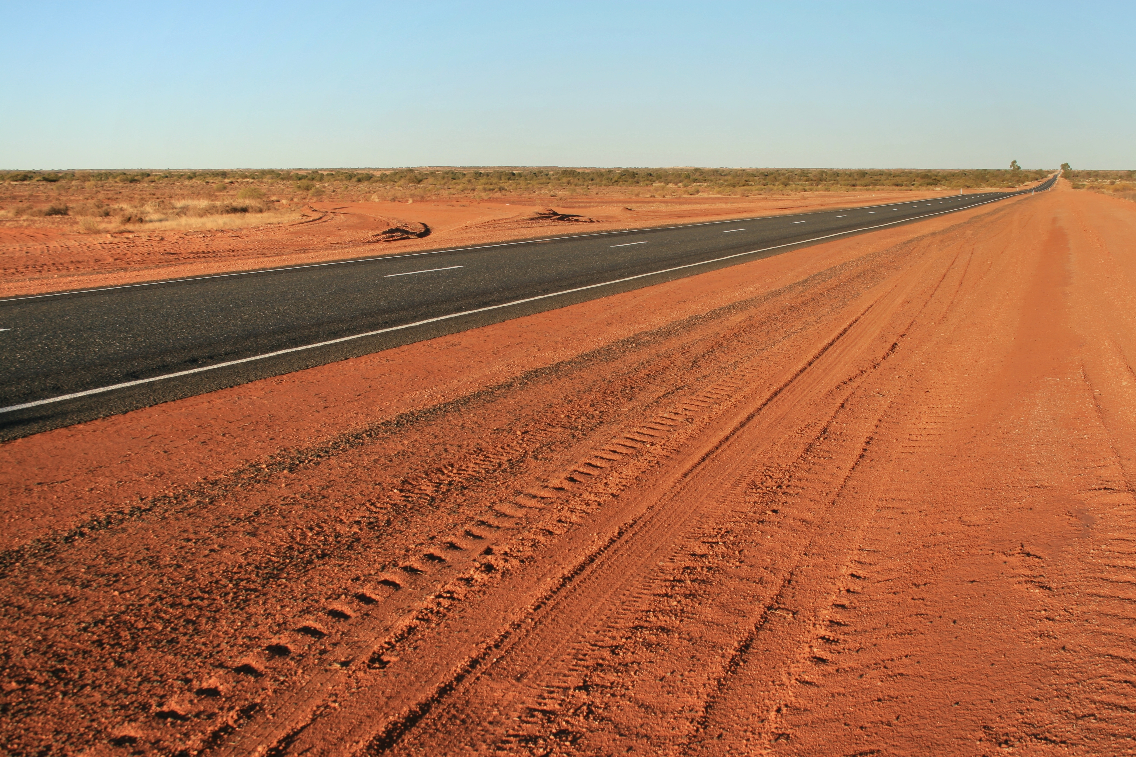 Section of the Lasseter Highway, Northern Territory, Australia.